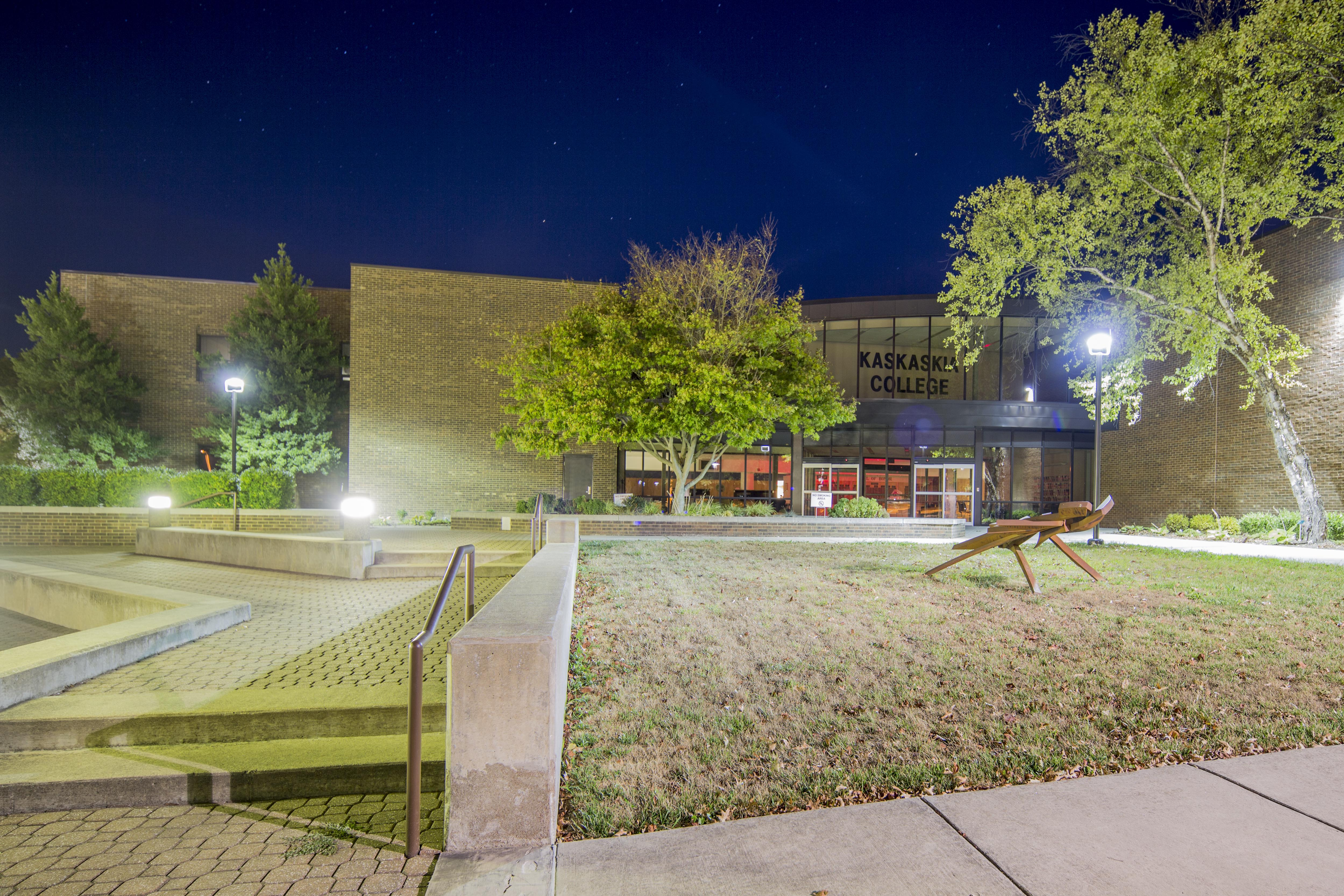 Kaskaskia College Main Building Summer 2012, Photo by ThePhotoRun's Jason Runyon